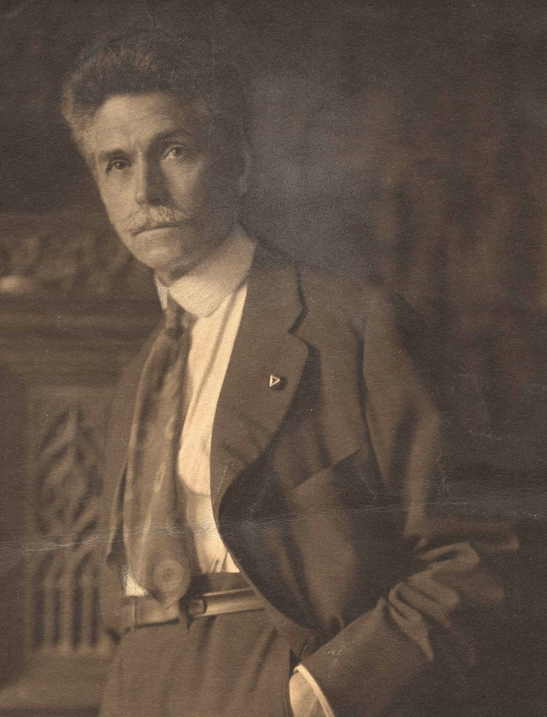 Description: Inscription lower left: "Charles H. Davis". Inscription lower right: "His daughter Angela G. Davis, 1914." Published in: Archives of American Art Journal v. 15, no. 2, p. 10. Davis, Charles H. (Charles Harold), 1856-1933 Creator/Photographer: Unidentified photographer Medium: Black and white photographic print Dimensions: 27 cm x 20 cm Date: 1914 Persistent URL: [1] Repository: Archives of American Art Native nameArchives of American ArtLocationWashington, D.C.Coordinates38° 53′ 52″ N, 77° 01′ 22″ W Established1954Website control : Q2860568 VIAF: 151134814 ISNI: 0000 0001 2185 0758 LCCN: n79065944 NLA: 35007823 GND: 1085306631 WorldCat Collection: Macbeth Gallery Records, c. 1890-1964 Accession number: aaa_macbgall_4657